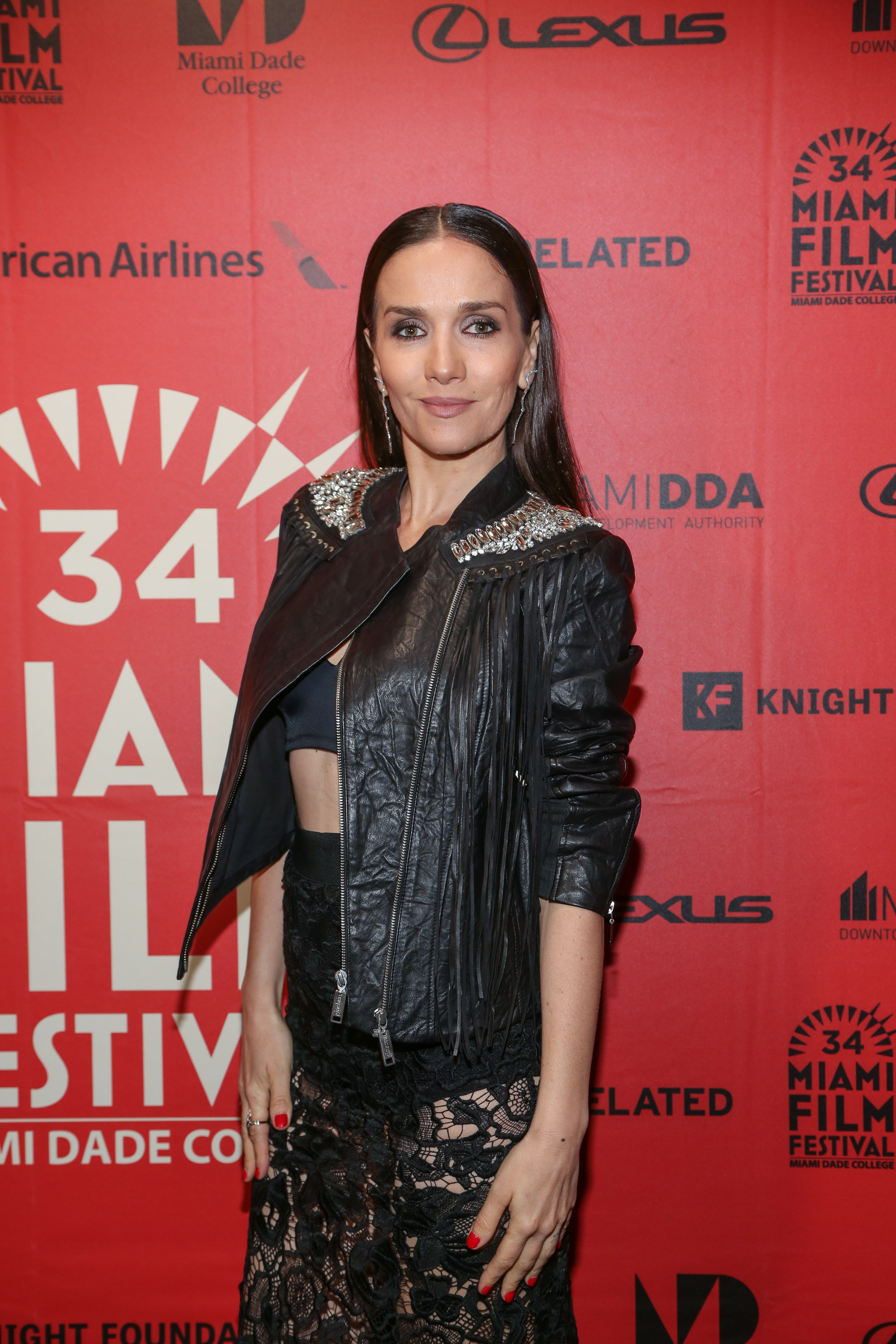 Natalia Oreiro at the 2017 Miami International Film Festival showing of I'm Gilda at Olympia, March 5, 2017